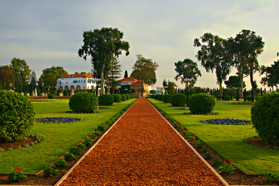 ACRE GARDEN